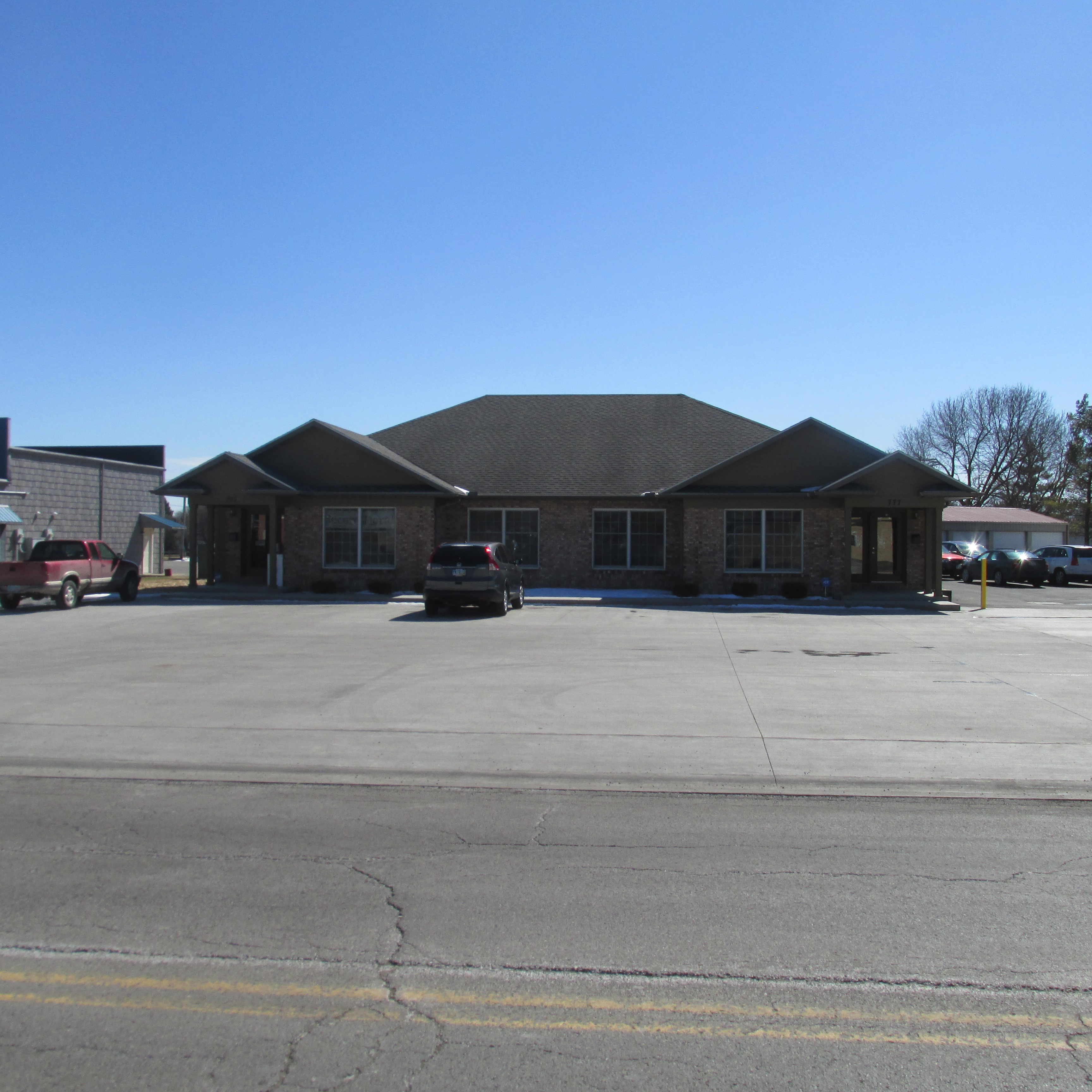 Office of the Record Herald newspaper in Washington Court House, Ohio.